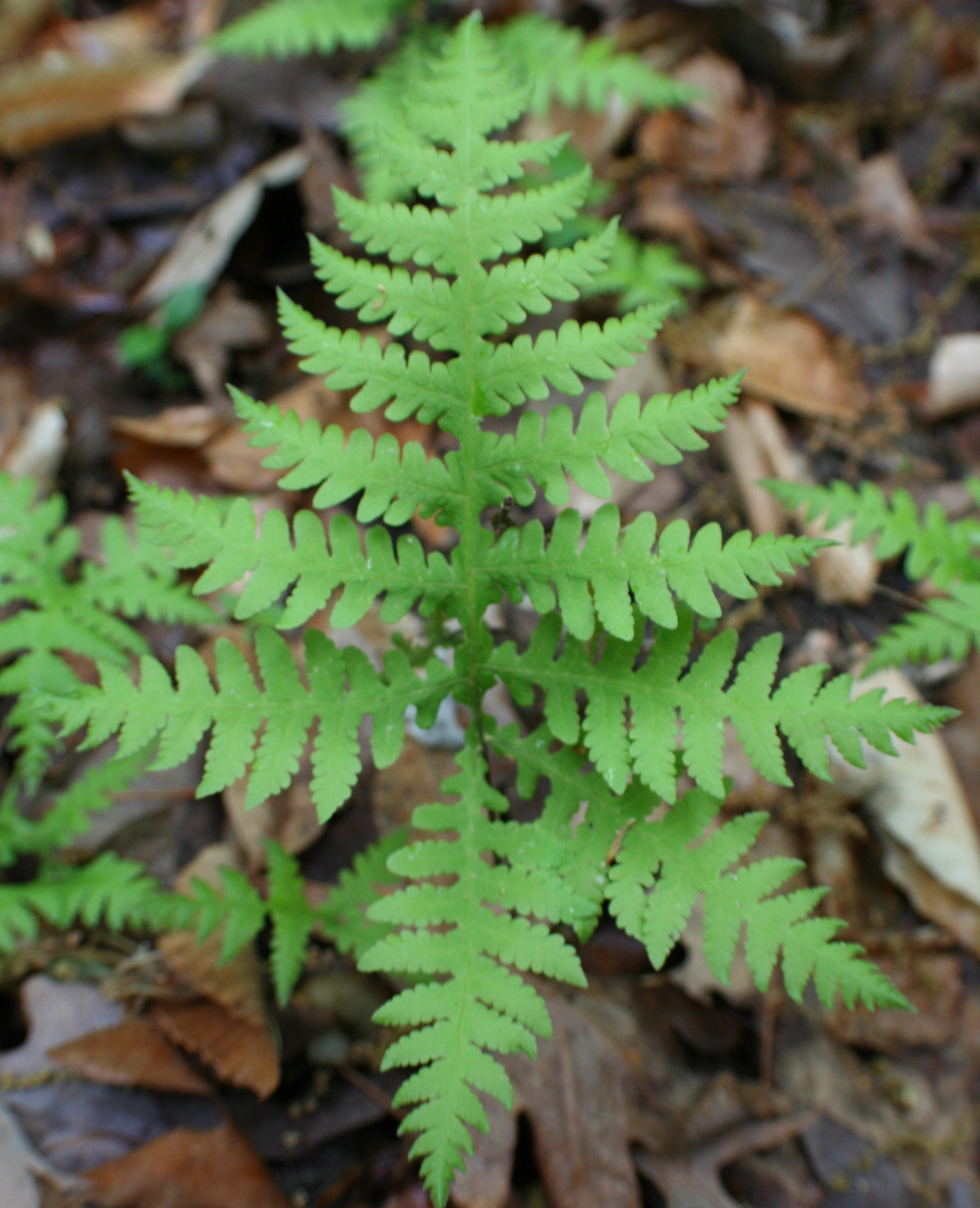 Phegopteris hexagonoptera emerging in the College Woods of the College of William and Mary in Williamsburg, Virginia